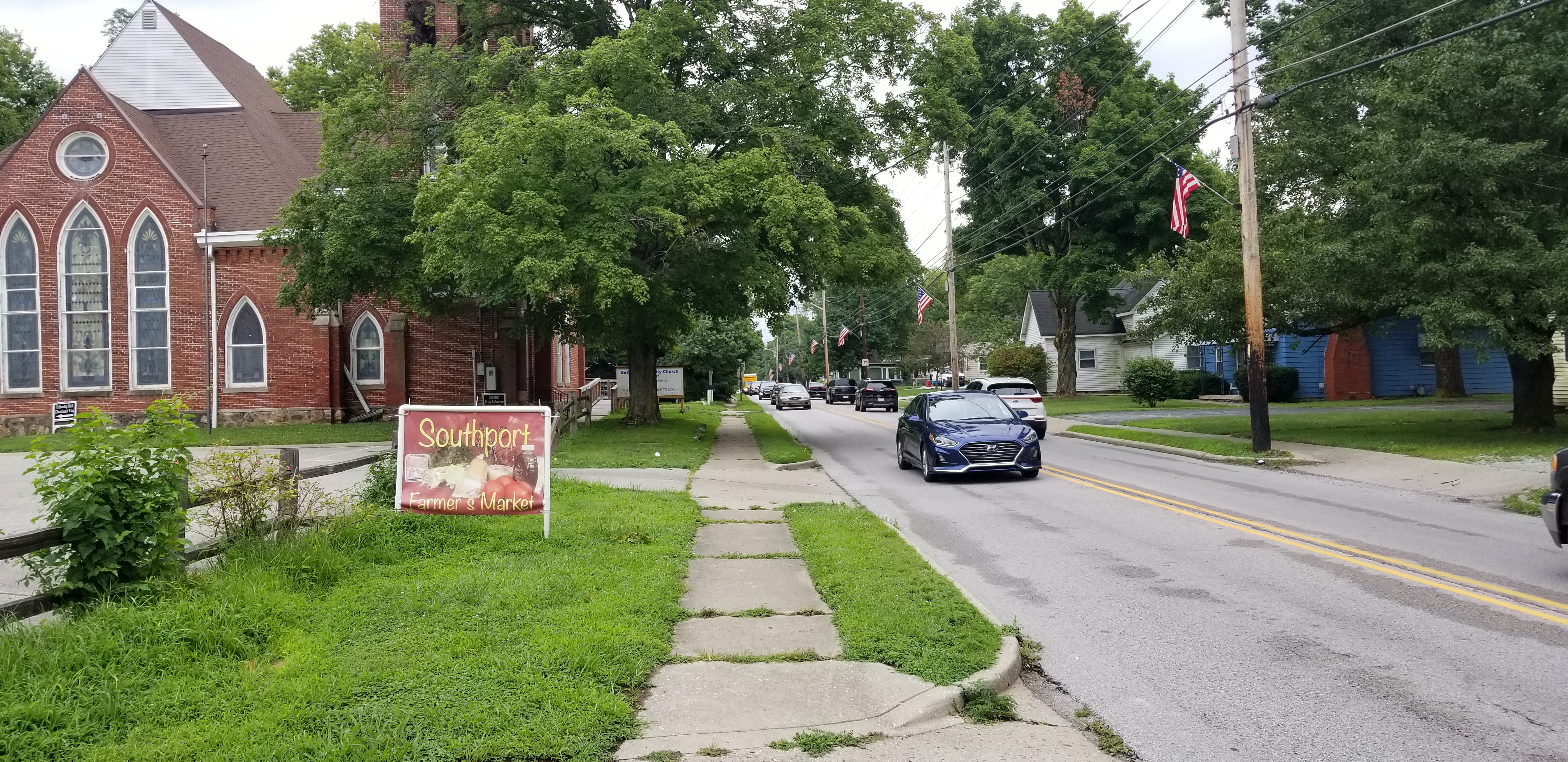 Southport, Indiana, from Southport Road, facing East, a few blocks into town.